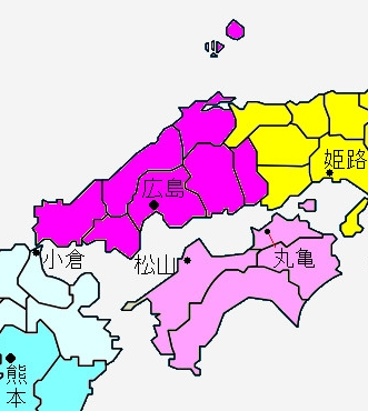 Fifth Army Region was composed of two divisional regions. The northern red area of this file is 9th Divisional Region. The southern pink is the 10th Divisional Region. This file is derived to File:Gokishichido.svg.